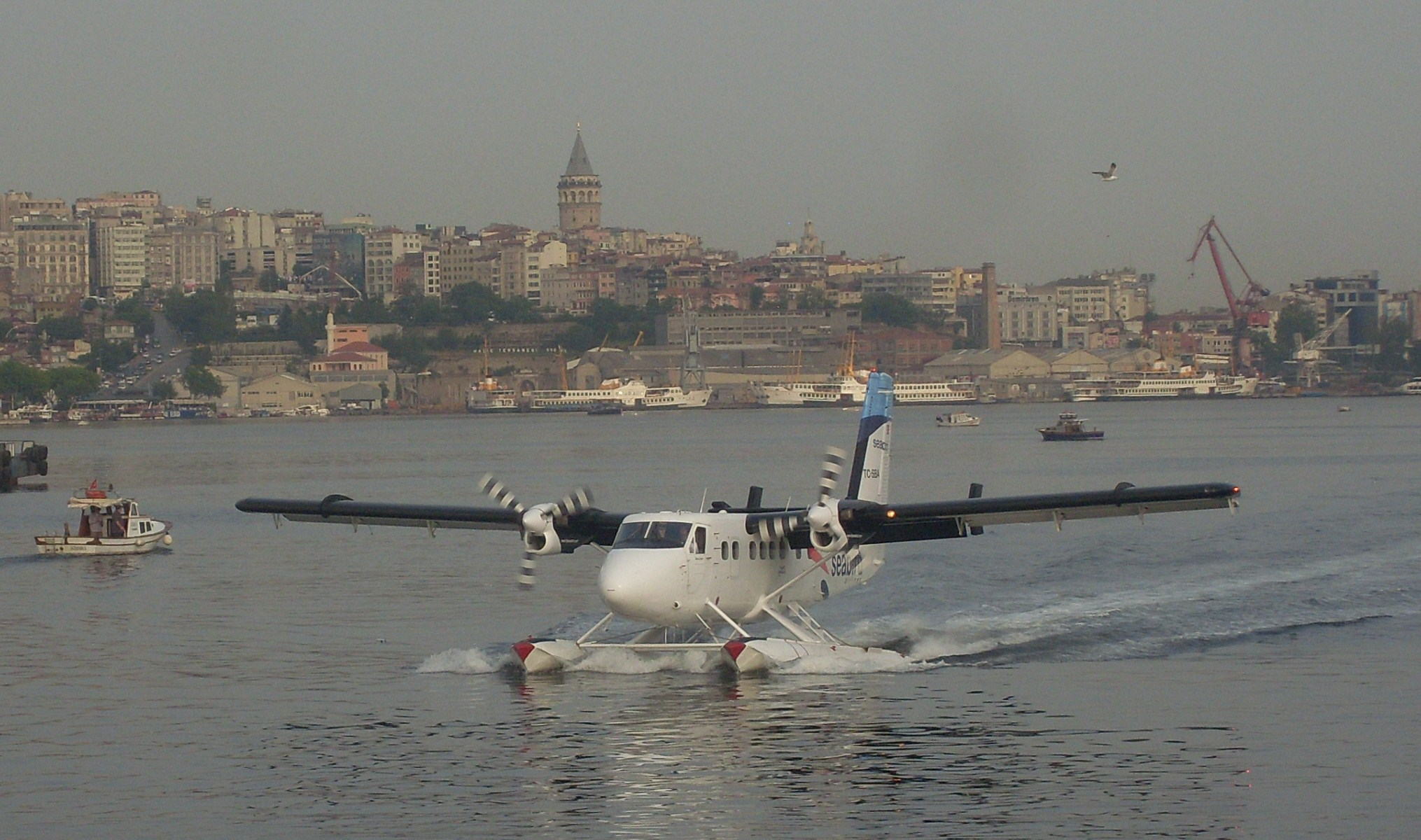 A seaplane just landed at Golden Horn,İstanbul - May 2013